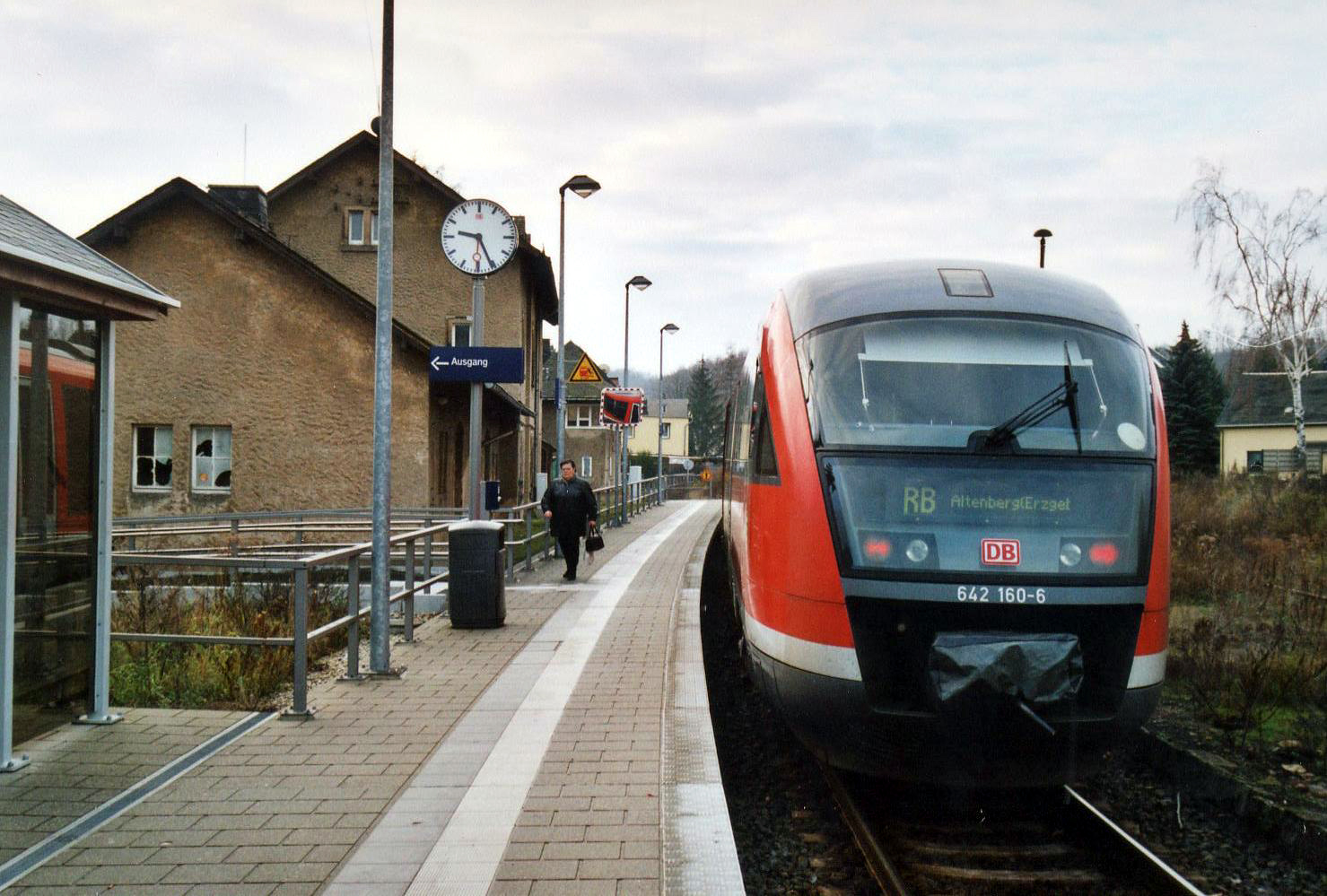 This image shows a multiple unit class 642 of the Müglitztal-railway-line Heidenau - Altenberg leaving the station in Dohna.